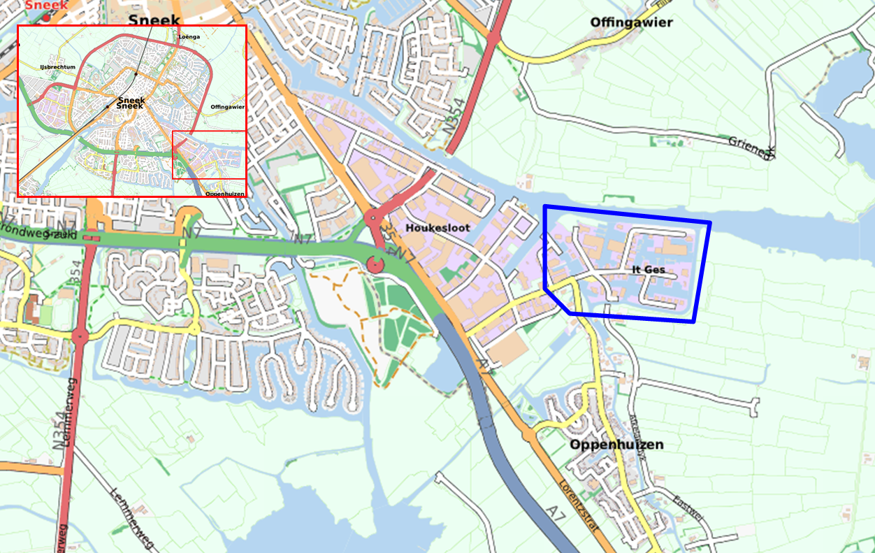 Own reproduction of OpenStreetMap. It Ges in Sneek.